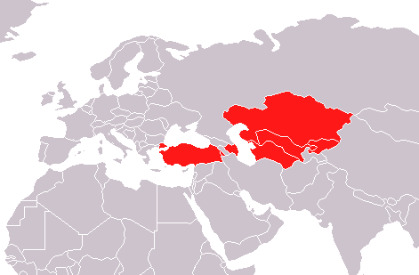 Core area of Pan-Turkism